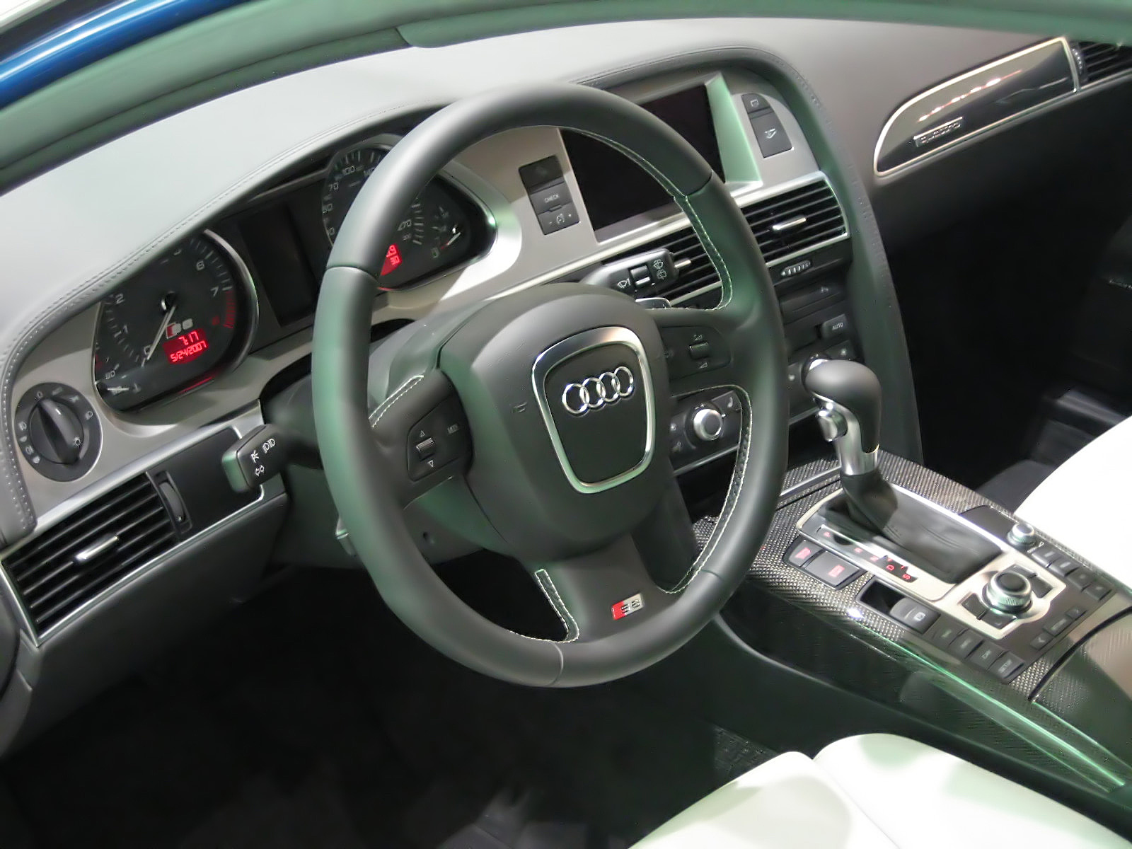 2007 Audi S6 Avant Interior photographed in Audi Forum Tokyo (Shibuya, Tokyo)